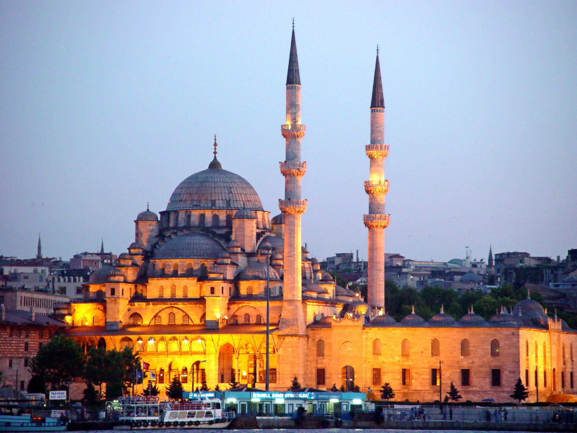 The New Mosque, or Yeni Camii, in Istanbul Turkey